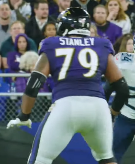 Ronnie Stanley in 2020. Image from video Kenny Vaccaro Mic'd Up vs. Ravens (AFC Divisional Round) | Tennessee Titans, ~ 01:46.